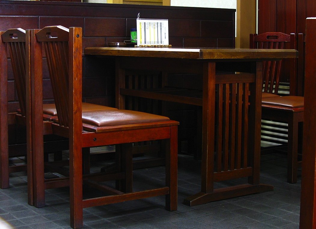 Table with luggage rack in a soba shop (restaruant), Japan